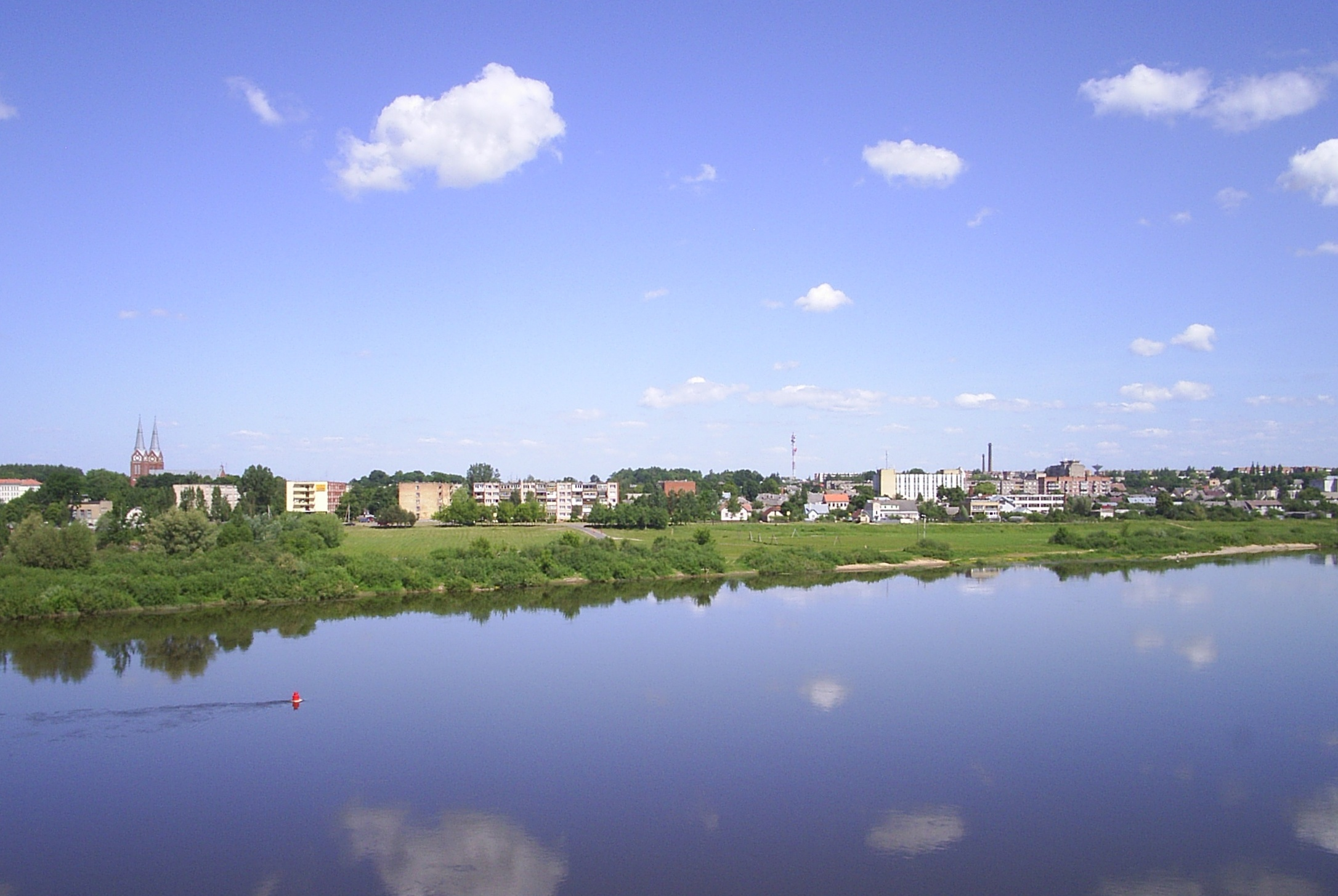 Jurbarkas town